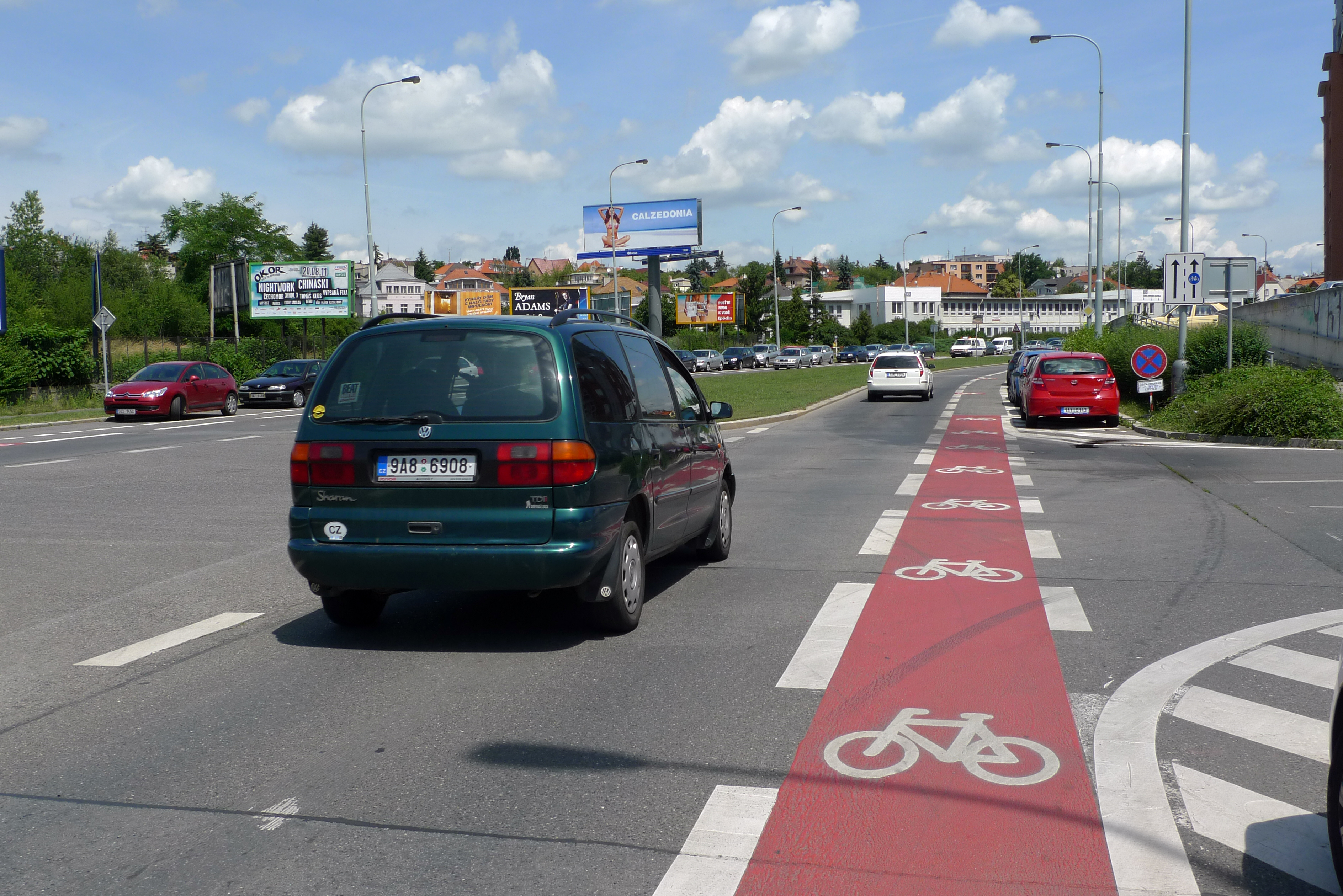 Cycle lane in Prague 10-Strašnice, Czech Republic